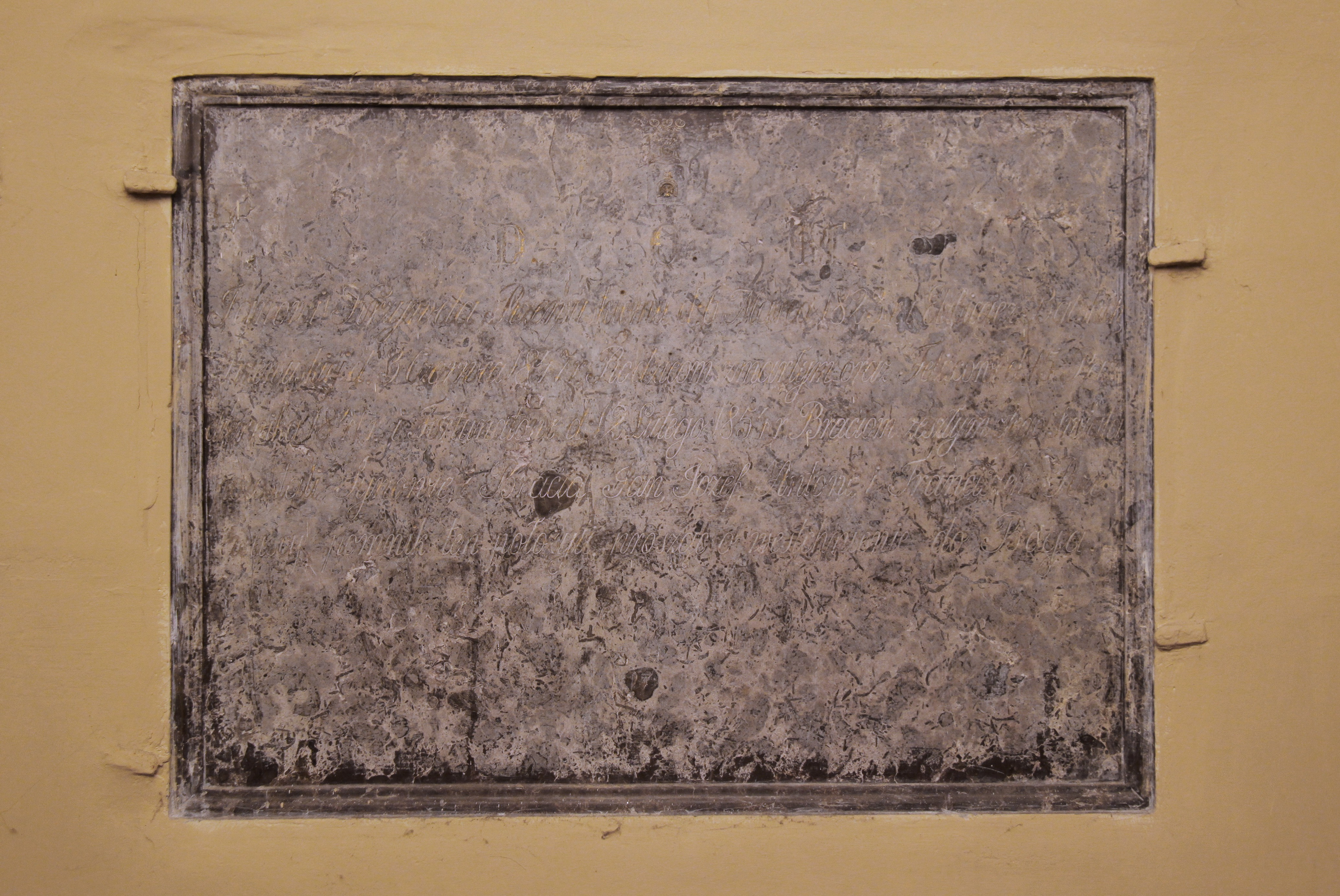 NPNMP Church in Busko-Zdrój - Rzewuski's family epitaph in the church porch.